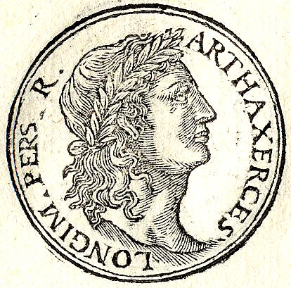 Artaxerxes I was king of the Persian Empire from 464 BC to 424 BC.